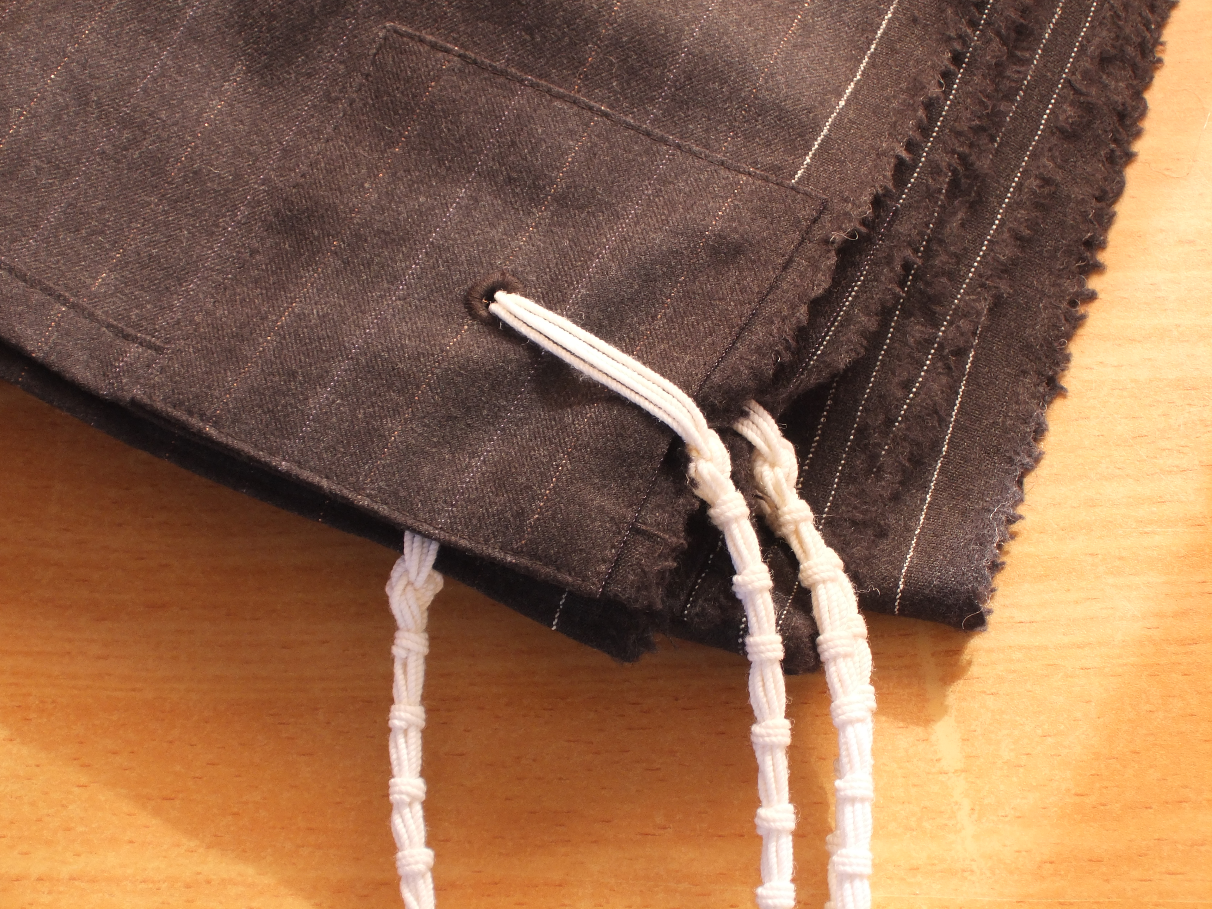 Talith made in the Yemenite Jewish fashion